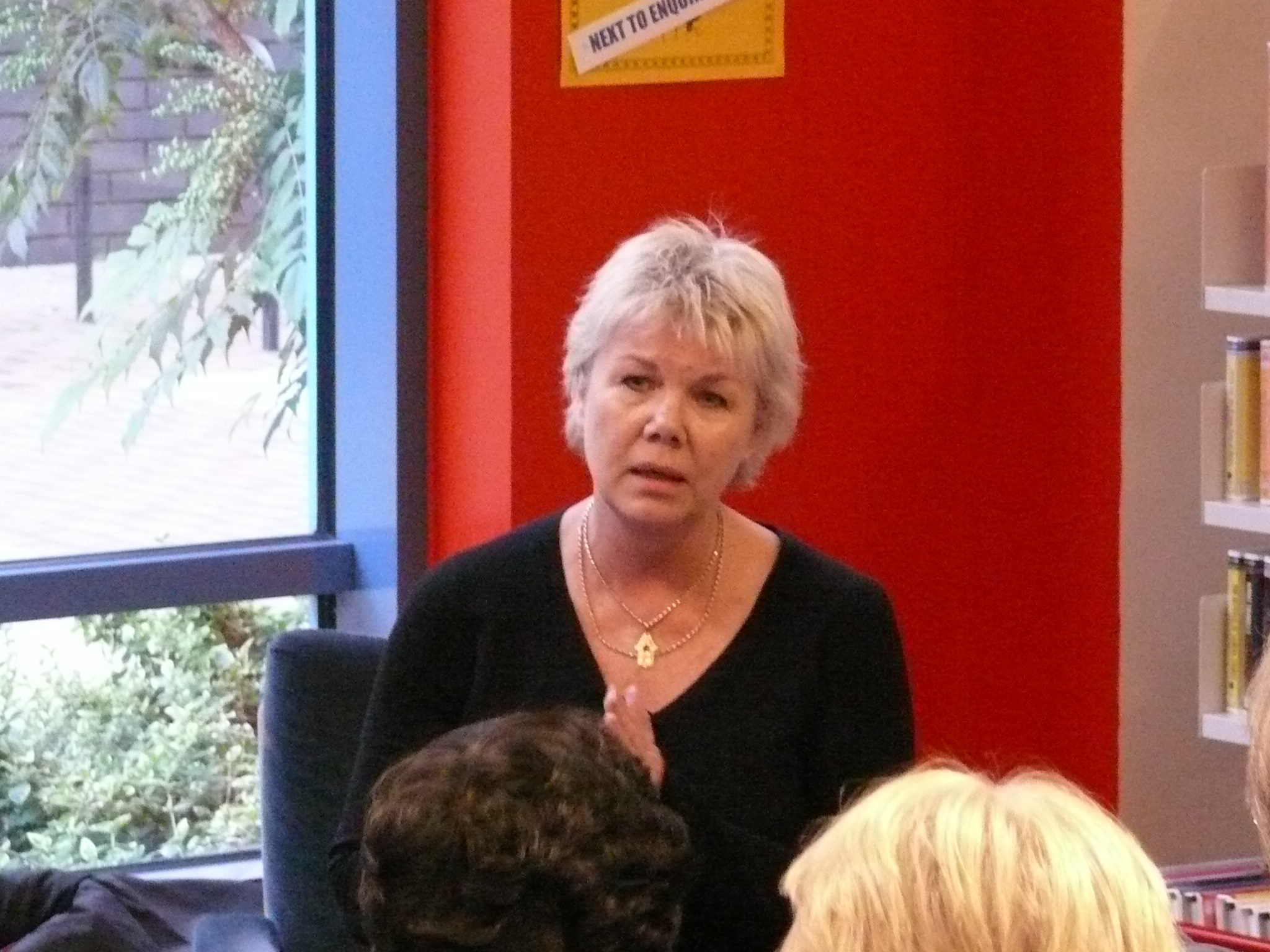 Sally Brampton giving a talk about her battle with depression to an audience at Woking library.